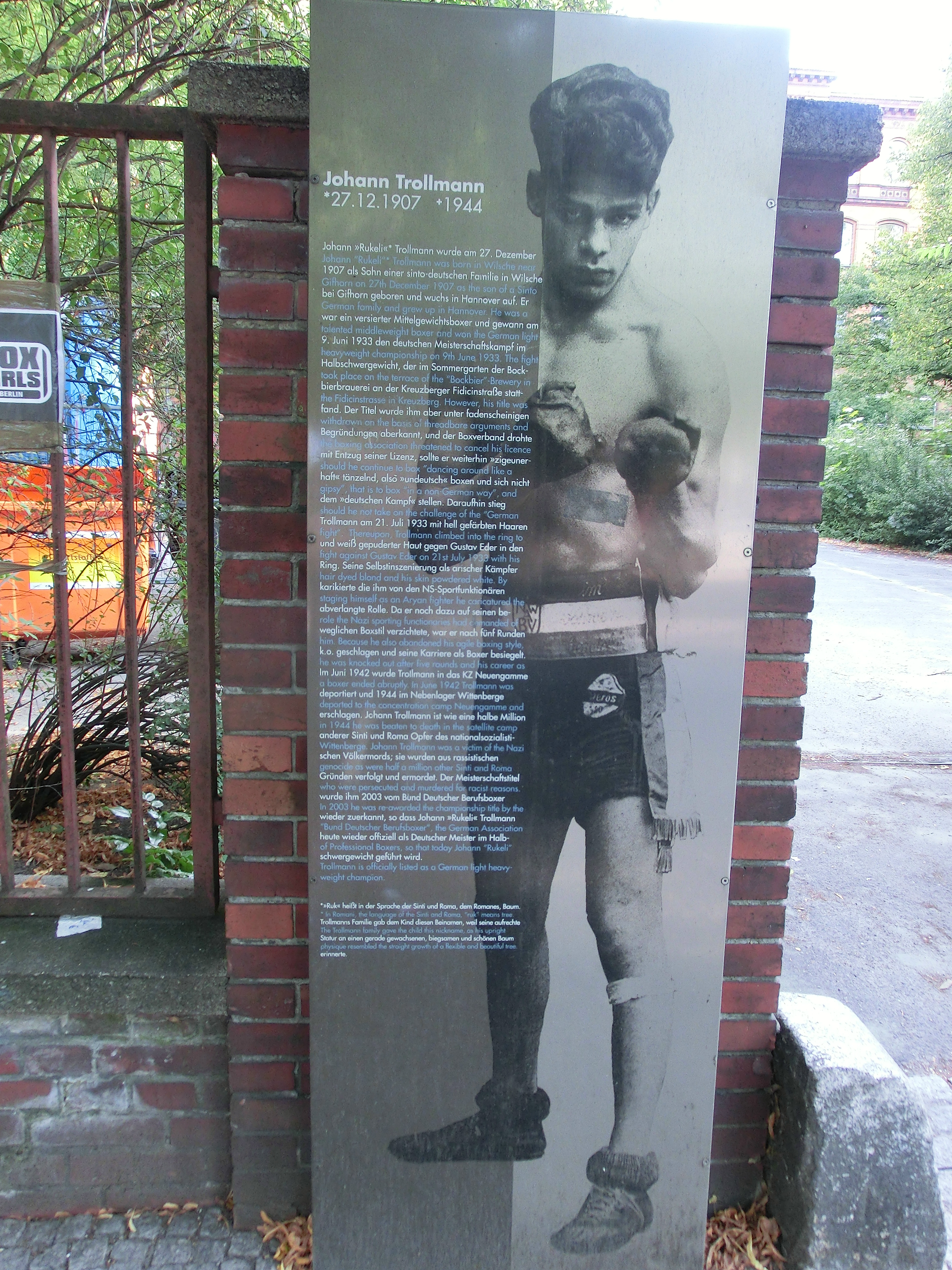 memorial to Johann Trollmann in front of the Johann Trollmann Boxcamp in Berlin Kreuzberg, Bergmannstreet